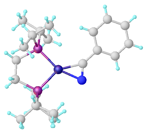 Structure of Ni(dipe)(eta-2-PhCN)